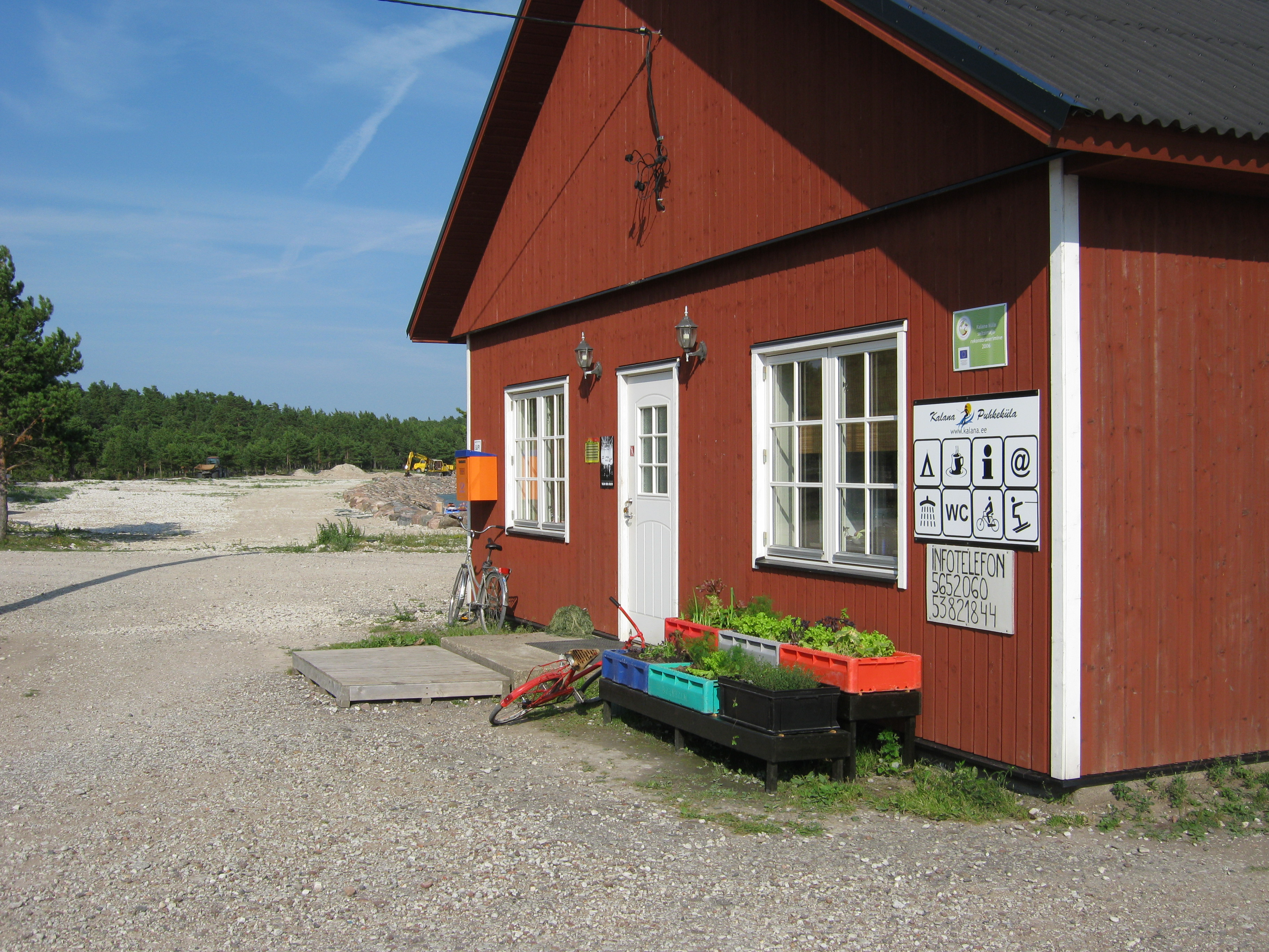 Harbour of Kalana on Hiiumaa Island in Kõpu peninsula, Kõrgessaare parish